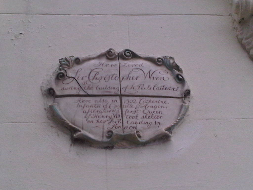 Christopher Wren's house plaque